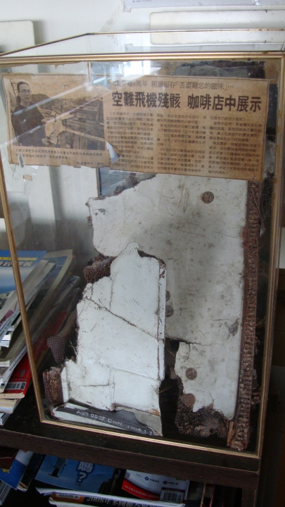 The wreckage of the plane crash of Dayuan 1998